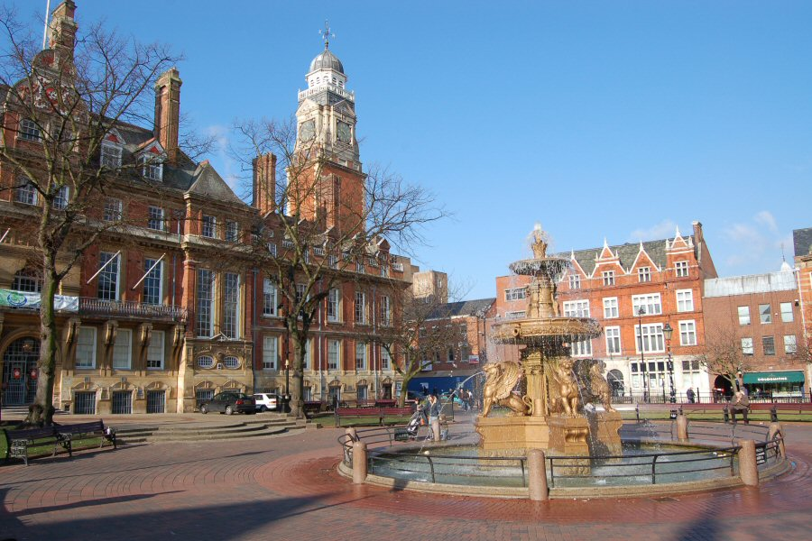 Leicester town hall and square, taken en:4 March en:2006 Andrew Norman